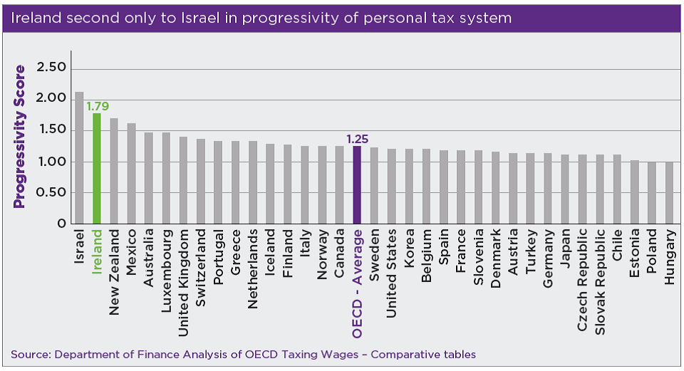 Replication of the OECD's 2015 Personal Taxation Progressivity Ratio (e.g. Employment tax at 167% of average wage vs. 67% of average wage)